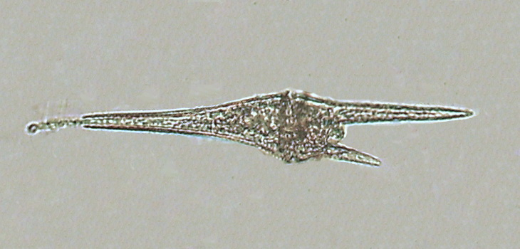 Hydrofront of Dnieper-Bug Liman